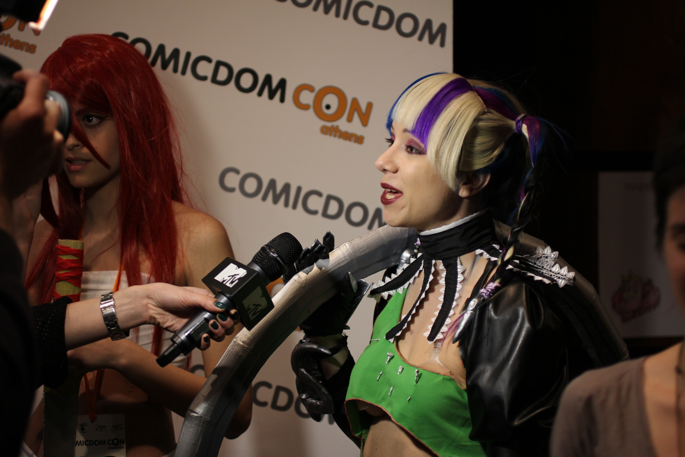 Cosplayer wearing a self-made costume representing the Tira character from Soulcalibur V, grants an interview to journalists from the MTV television channel and also poses for other the photojournalists' cameras at Comicdom 2012, an annual cosplay competition held at Hellenic American Union in Kolonaki, Athens, Greece. Photo donated to the public domain free of copyright restrictions. Journalistic use. For Journalistic use.